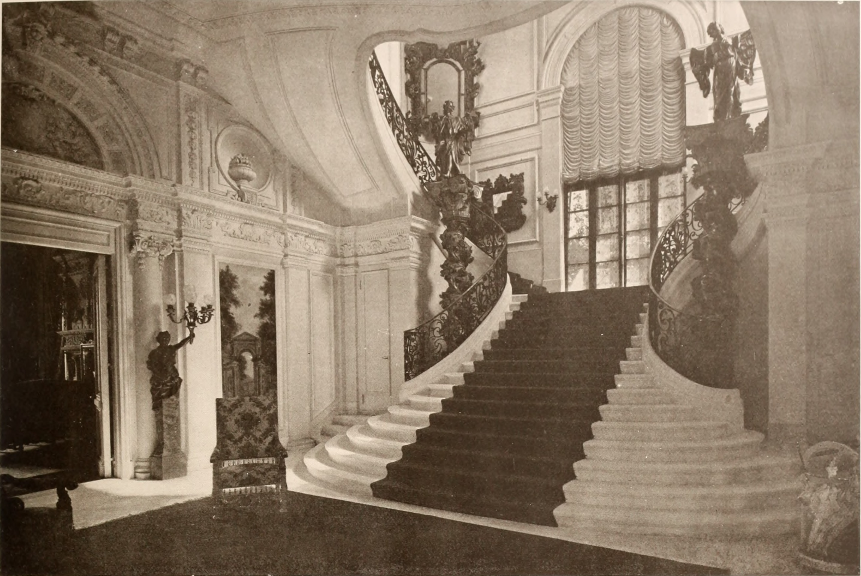 Title: American homes and gardens Year: 1905 (1900s) Authors: Subjects: Architecture, Domestic; Landscape gardening Publisher: New York, Munn and Co Text Appearing Before Image: March, 1906 AMERICAN HOMES AND GARDENS '57 Text Appearing After Image: The Staircase is of Palatial Size and Splendor